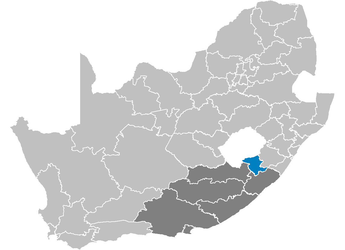 Map showing the Alfred Nzo District Municipality higlighted within Eastern Cape.